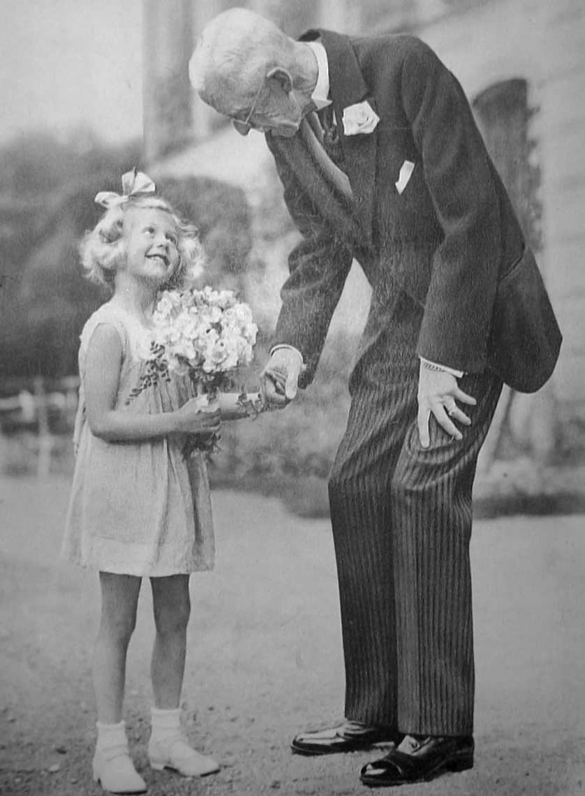 King Gustav V at Tullgarn castle on his 79th birthday June 16, 1937 receiving flowers from a child (Monica Eliaeson). Photo published the next day on the front page of Svenska Dagbladet, photographer uncredited (svd.se). Photo later used for the book cover of "Kungaboken" written by Prince Wilhelm and Lennart Bernadotte, published in Stockholm 1943.